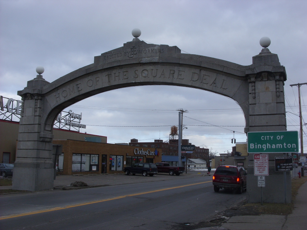 Johnson City Square Deal Arch (built 1920) — in Binghamton, New York. 021609 178